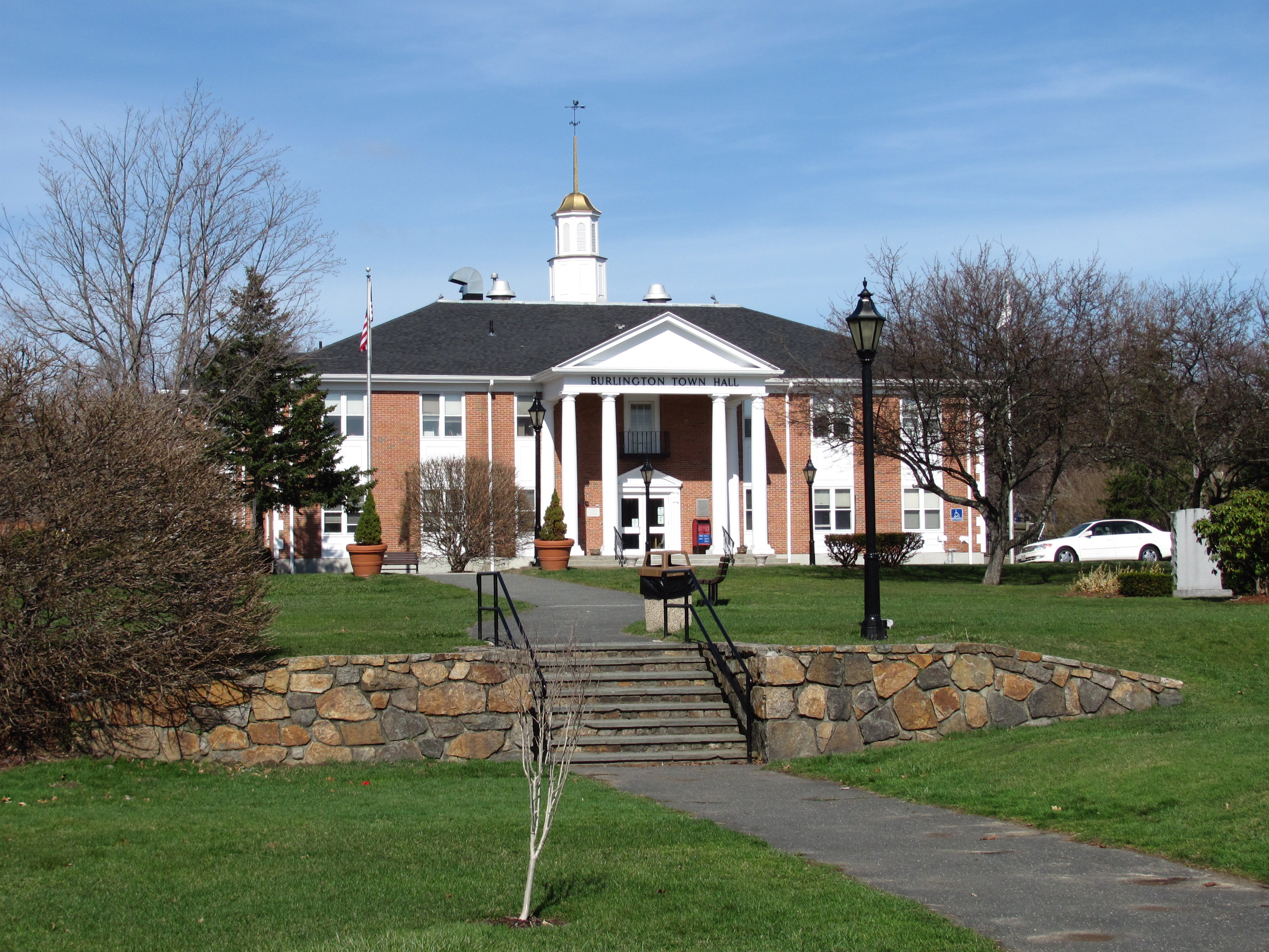 Town Hall, Burlington Massachusetts